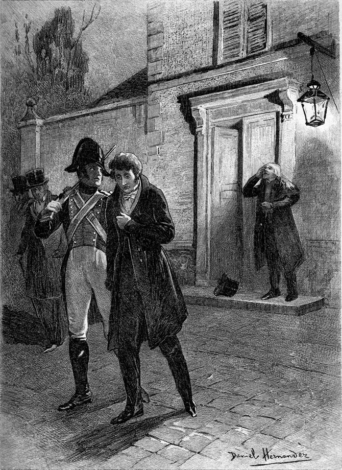 Title page of Honoré de Balzac's The Cabinet of Antiquities, (1839).